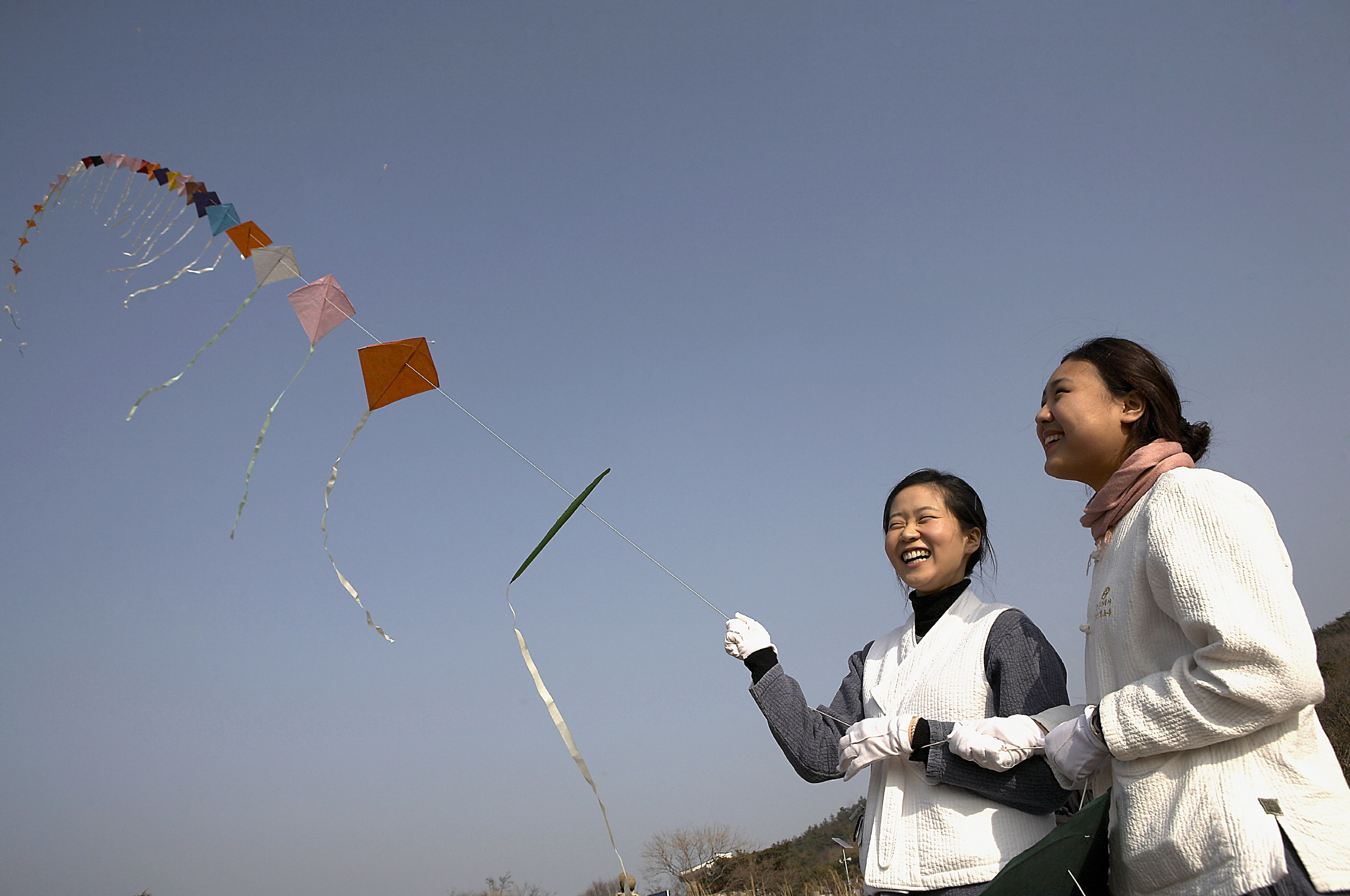 Beom-eo temple